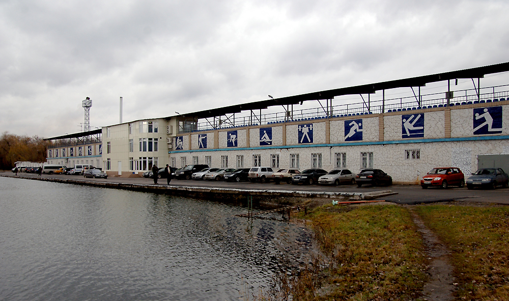 Metalurh Stadium in Yenakiieve, Ukraine.